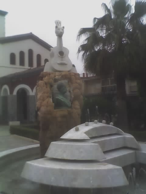 La Leona is the marble guitar in the plaza of La Cañada de San Urbano (that's what the Spanish-language article that uses this image says; a bit vague, context suggests this is in Almería) that symbolizes luthier Antonio Torres.